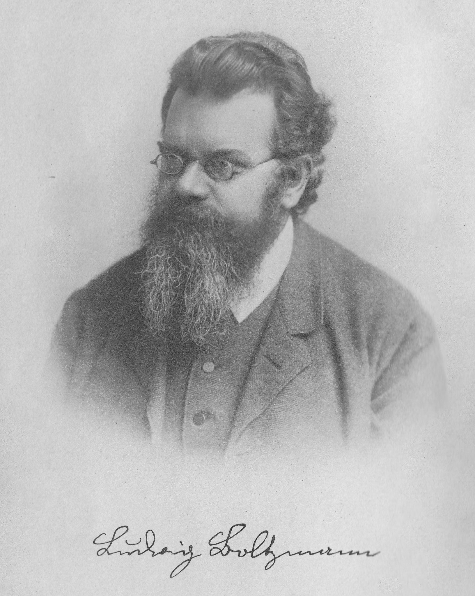 Ludwig Boltzmann (1844-1906), austrian phyisicist